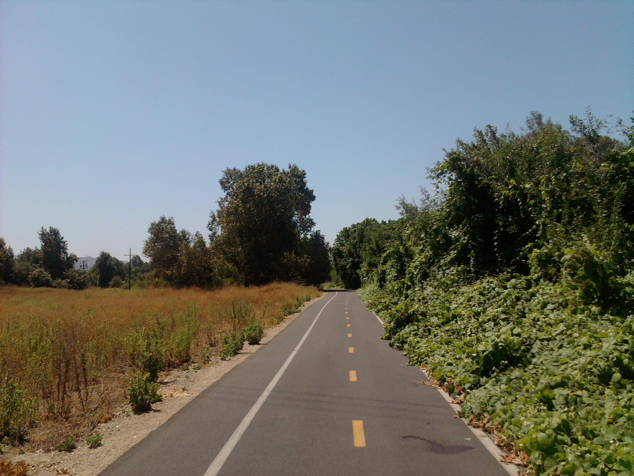 The northern Rio Hondo bicycle path — along the Rio Hondo (creek) in the San Gabriel Valley, in Los Angeles County, California. The bicycle path has California native plants gardens, interpretive signs, and connects to the San Gabriel River bicycle path and L.A. River bicycle path. The Rio Hondo is a tributary of the Category:Los Angeles River, and the Rio Hondo bicycle path merges into the Los Angeles River bicycle path at the confluence and continues south to Long Beach.